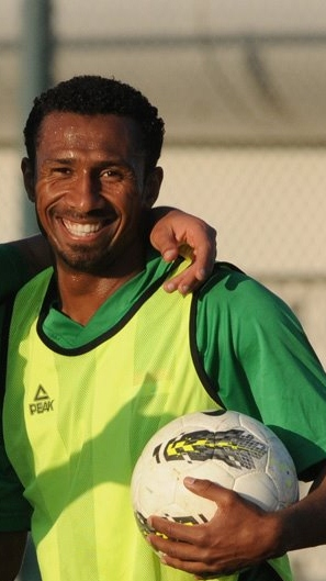 A snapshot of the training team on this day .. Qusay Munir and Mustafa Karim